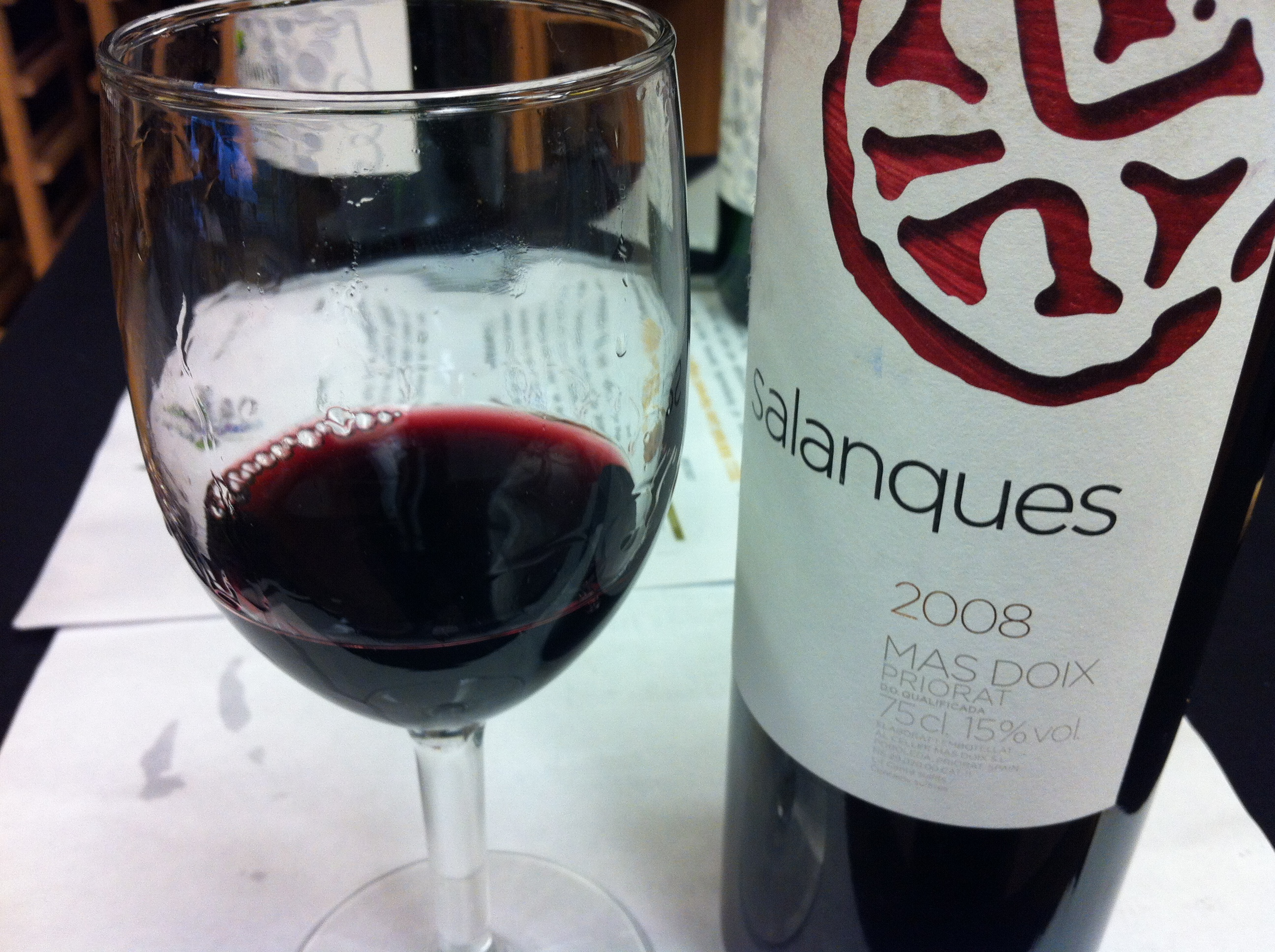 Spanish red wine from the Priorat region